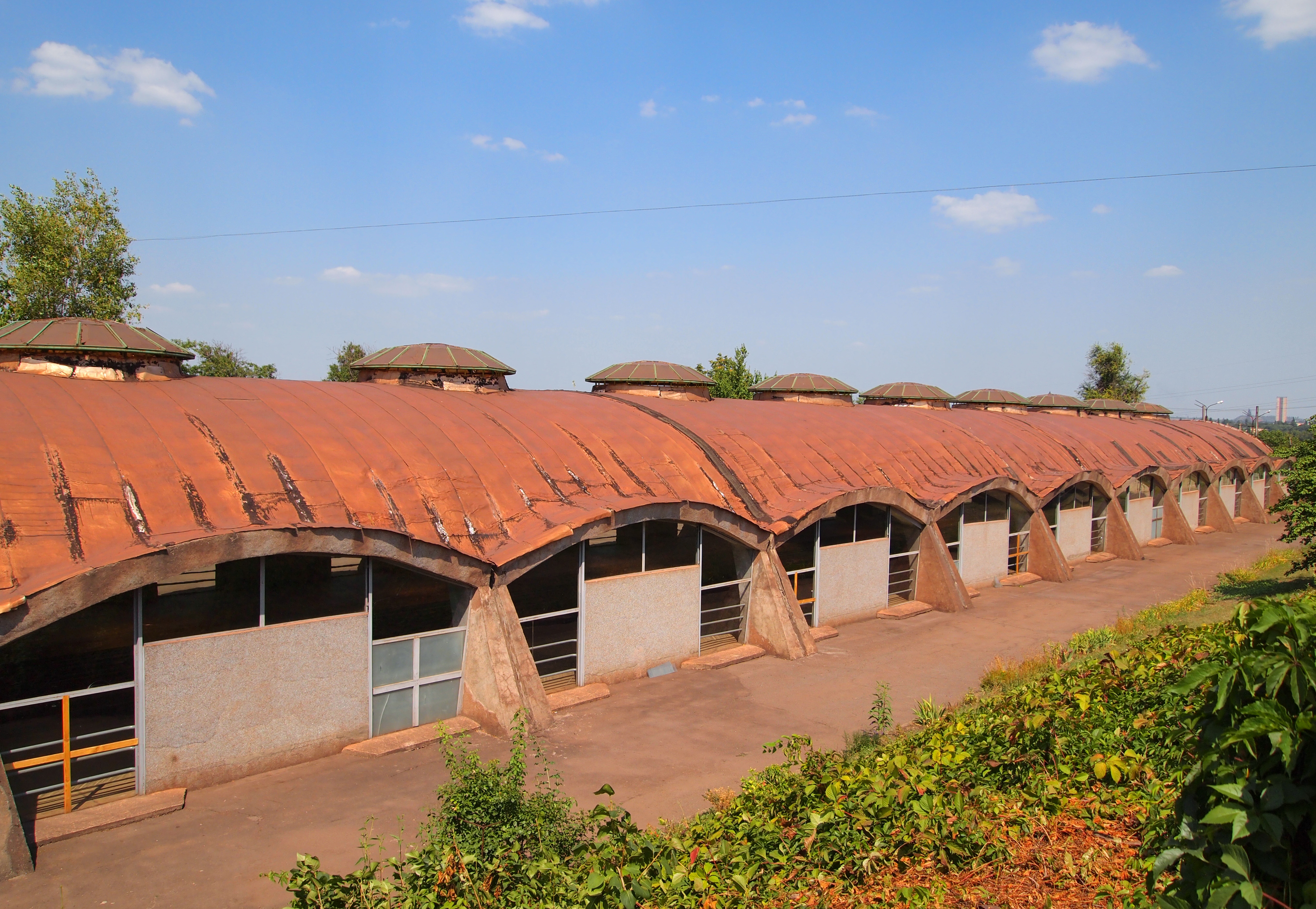 Dzerzhinska metro station in Kryvyi Rih. This photograph was taken with an Olympus E-PL1